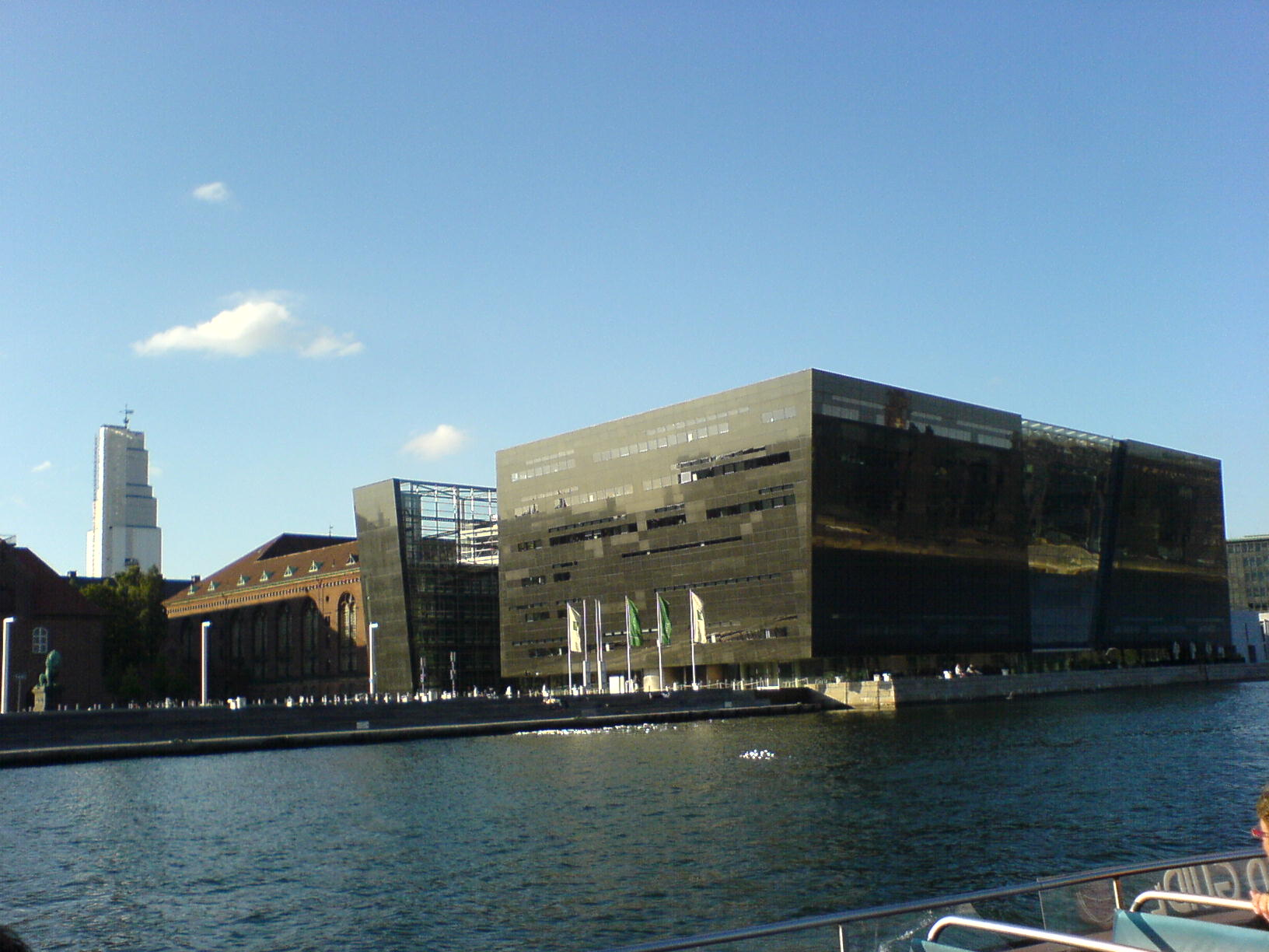 The Royal Library ('Det Kongelige Bibliotek') of Copenhagen, Denmark, including the Black Diamond ('Den sorte diamant') on the right.